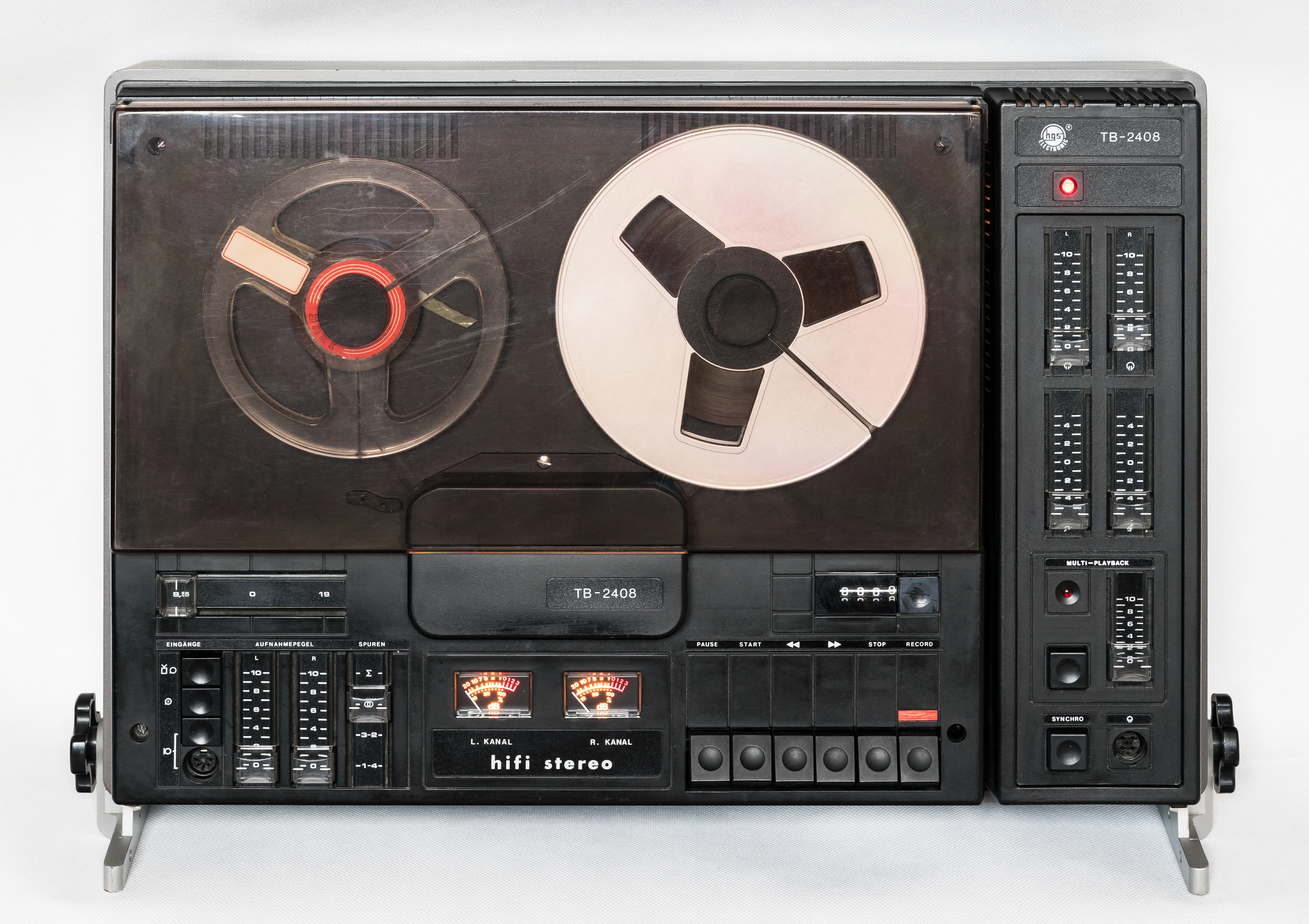 Aria M 2408 SD tape recorder